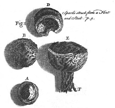 Remnants of sparks